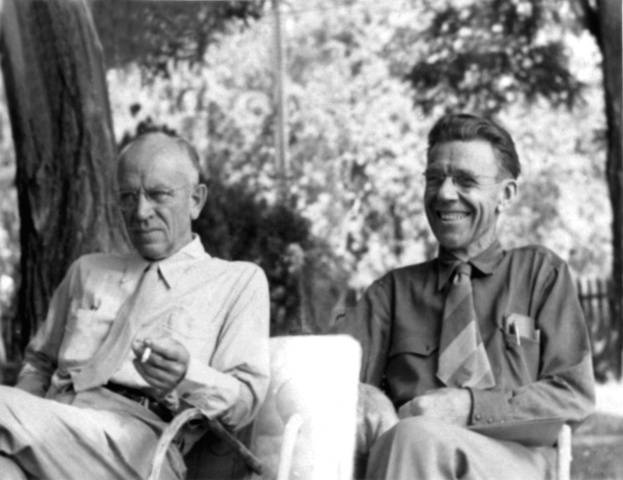 Aldo Leopold (left) and Olaus Muire sitting together outdoors, annual meeting of The Wilderness Society Council, Old Rag, Virginia, 1946.